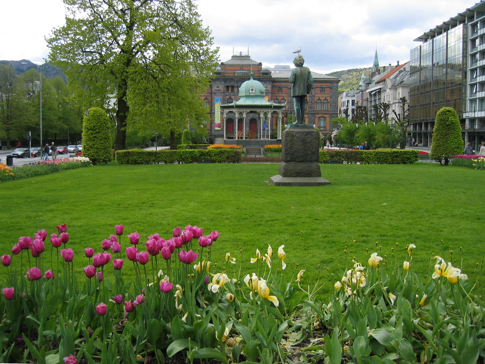 Part of City park with Edvard Grieg Monument in Begen Norway